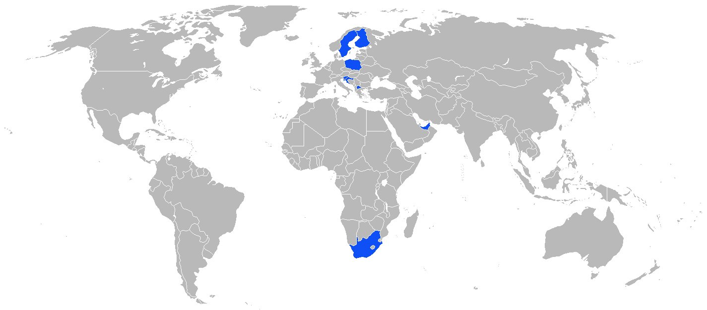 A map of the world operators of the AMV Patria. This map uses the Robinson projection centered on the Greenwich Prime Meridian and includes various microstates and island nations.